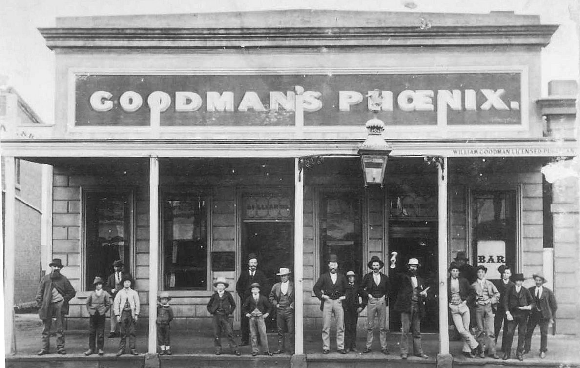 Picture of Phoenix Hotel Talbot